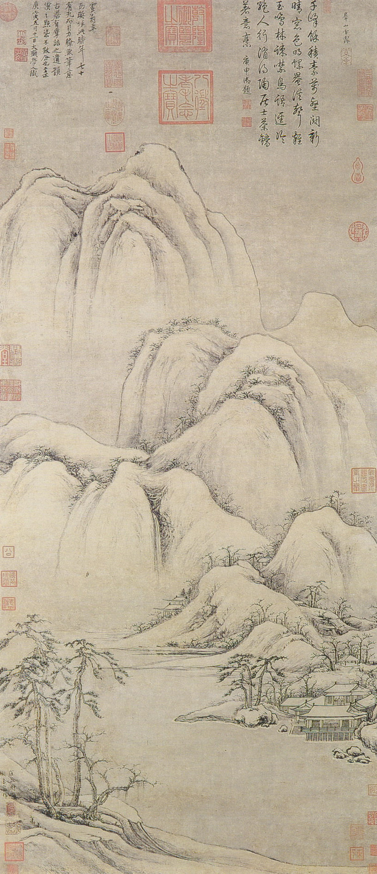 Clearing Snow on Mountain Peaks, hanging scroll, Ink on silk, 129.7 x 56.4 cm. Located at the National Palace Museum.